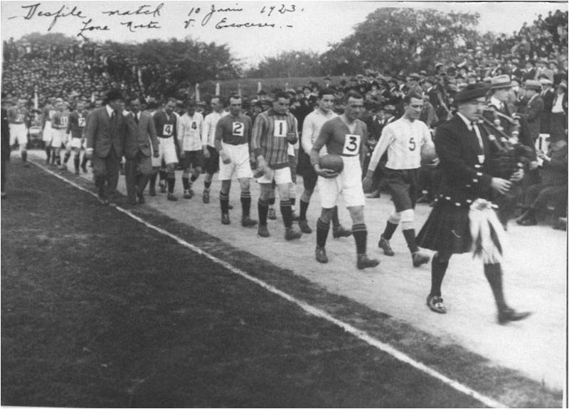 Football teams Zona Norte (Argentine combined) and Third Lanark A.C. entering together to the field to play a friendly match in Argentina.